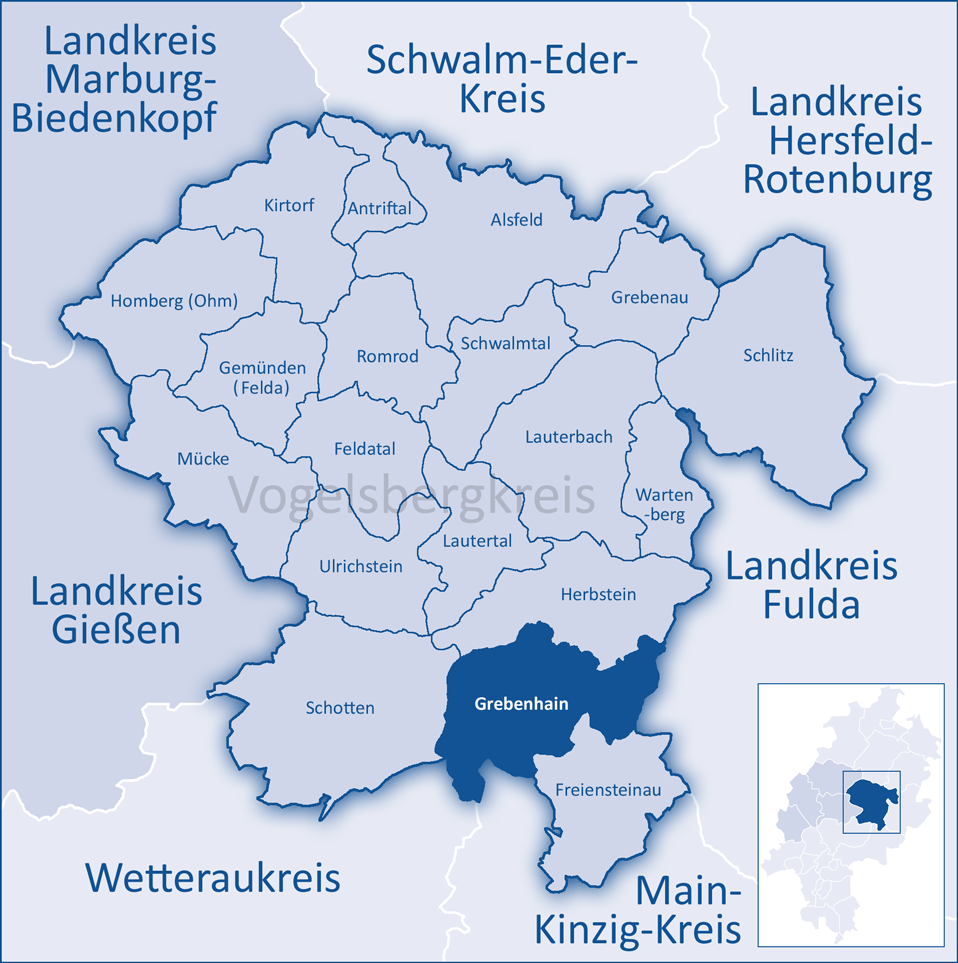 The map shows a district in the area of Vogelsbergkreis